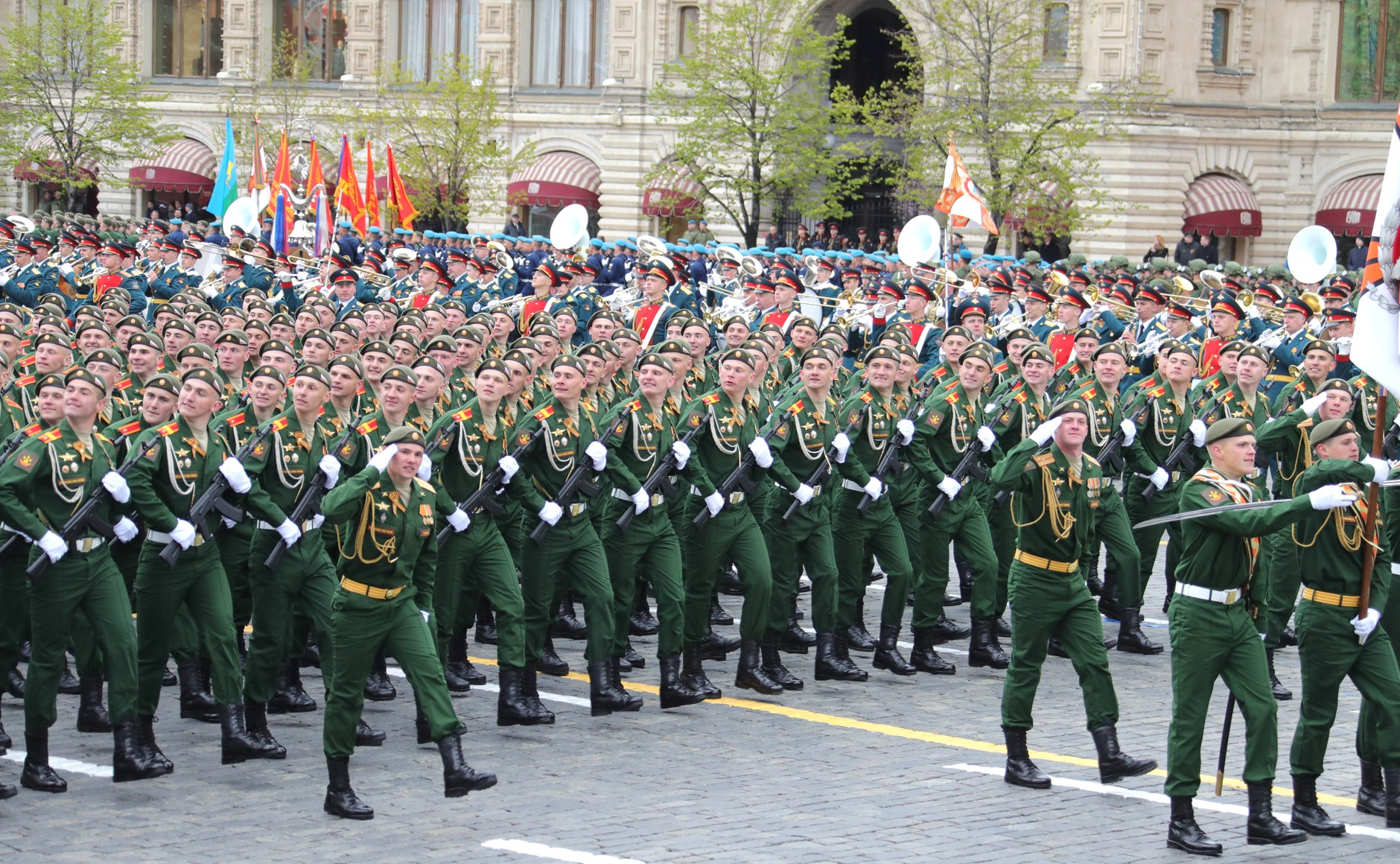 Military parade on Red Square 2017-05-09